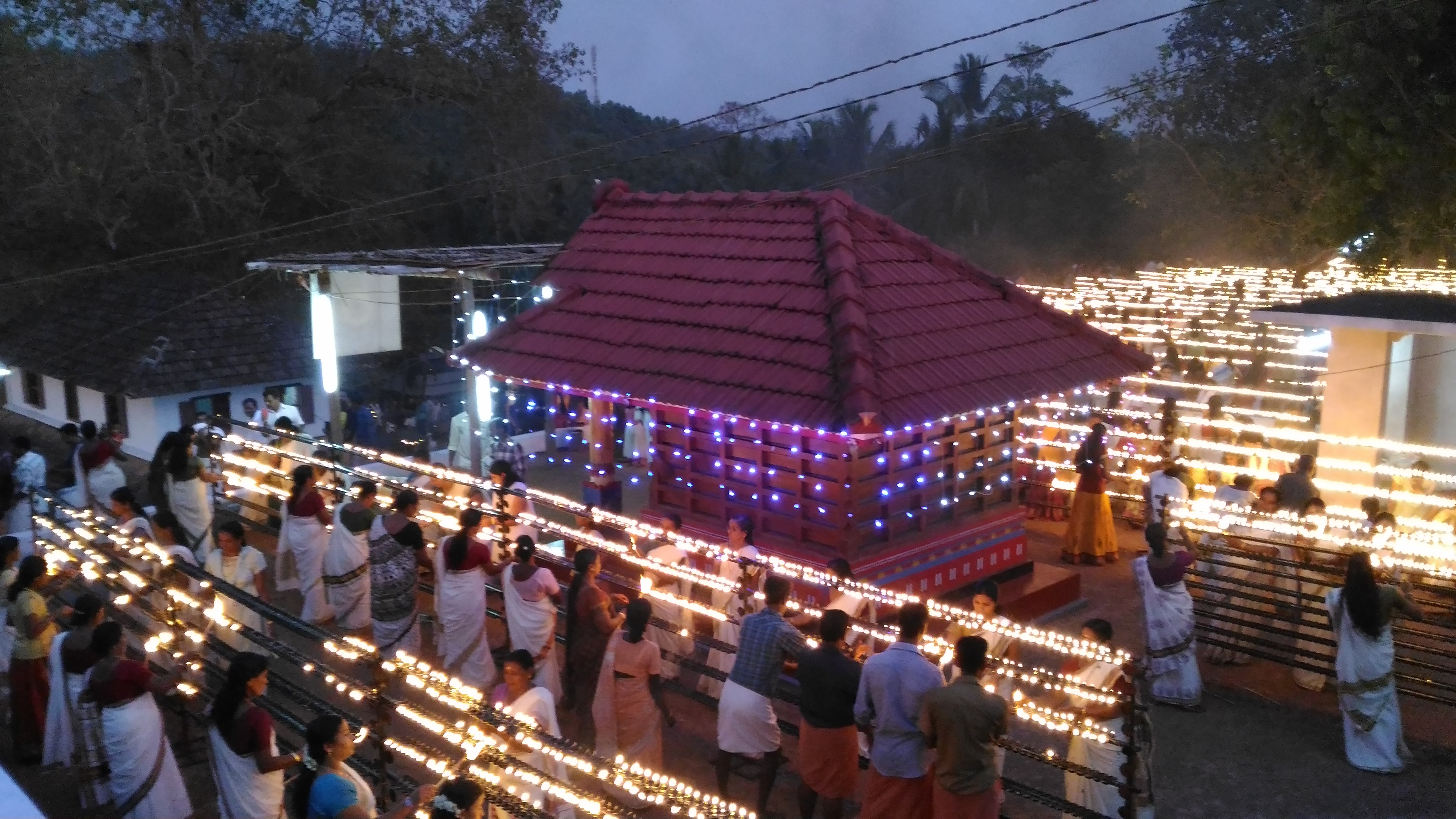 Lakshadeepam at Madikai Madam in Kasaragod district